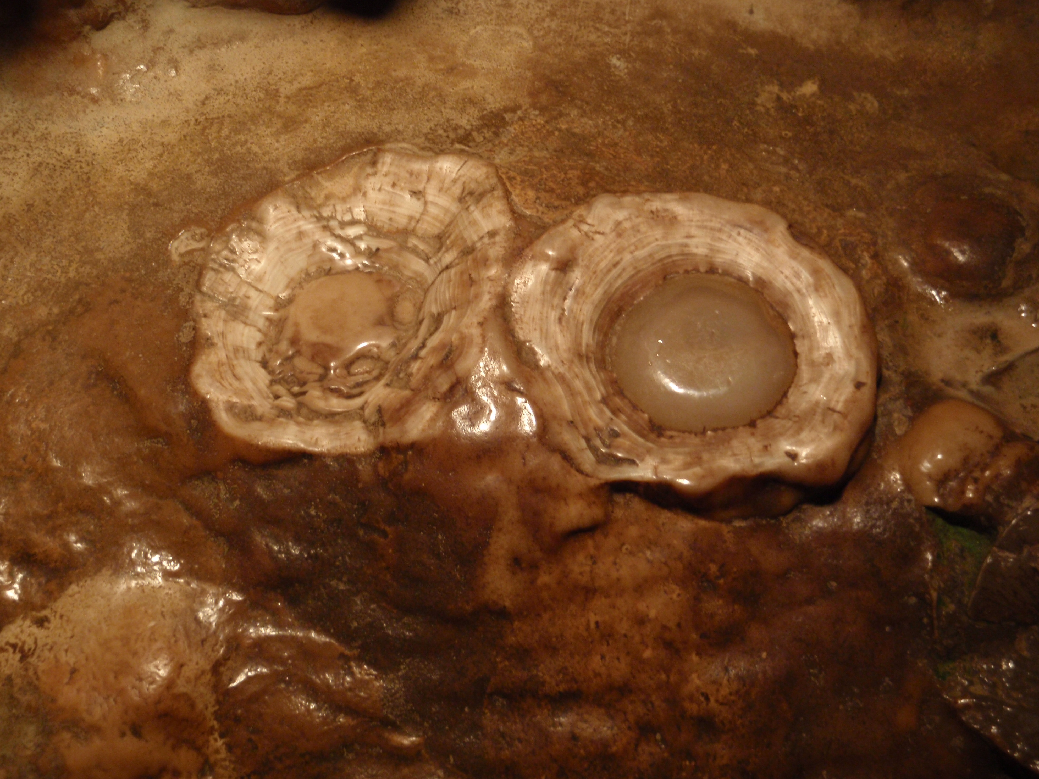 Image of the "Fried Eggs" rock formation at Luray Caverns. Category:Luray Caverns